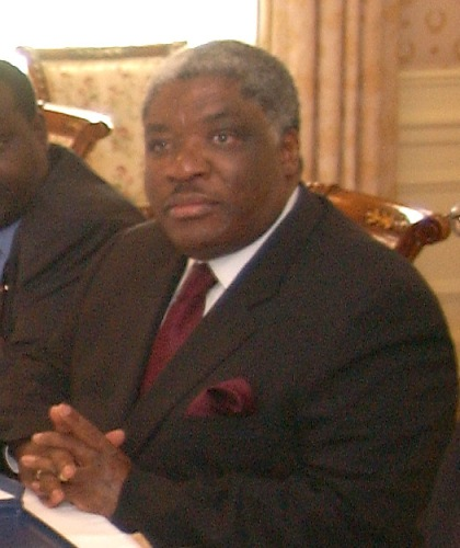 Cropped image of Levy Mwanawasa. [Original description: U.S. Secretary of State Colin Powell and President of Zambia Levy Mwanawasa meet in New York during the 59th UN General Assembly.]